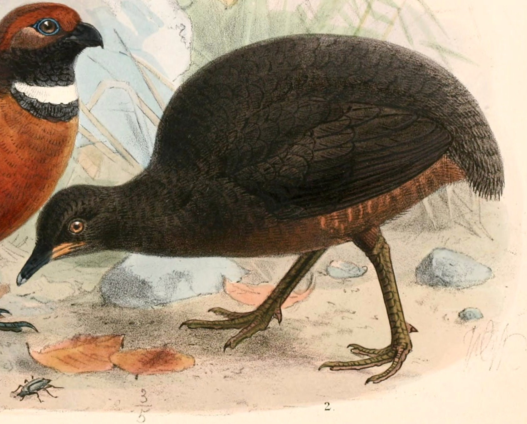 « Crypturus berlepschi » = Crypturellus berlepschi (Berlepsch's Tinamou)